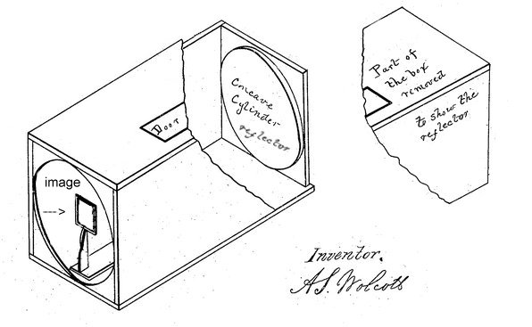 United States Patent No. 1, 562 drawing of Wolcott camera